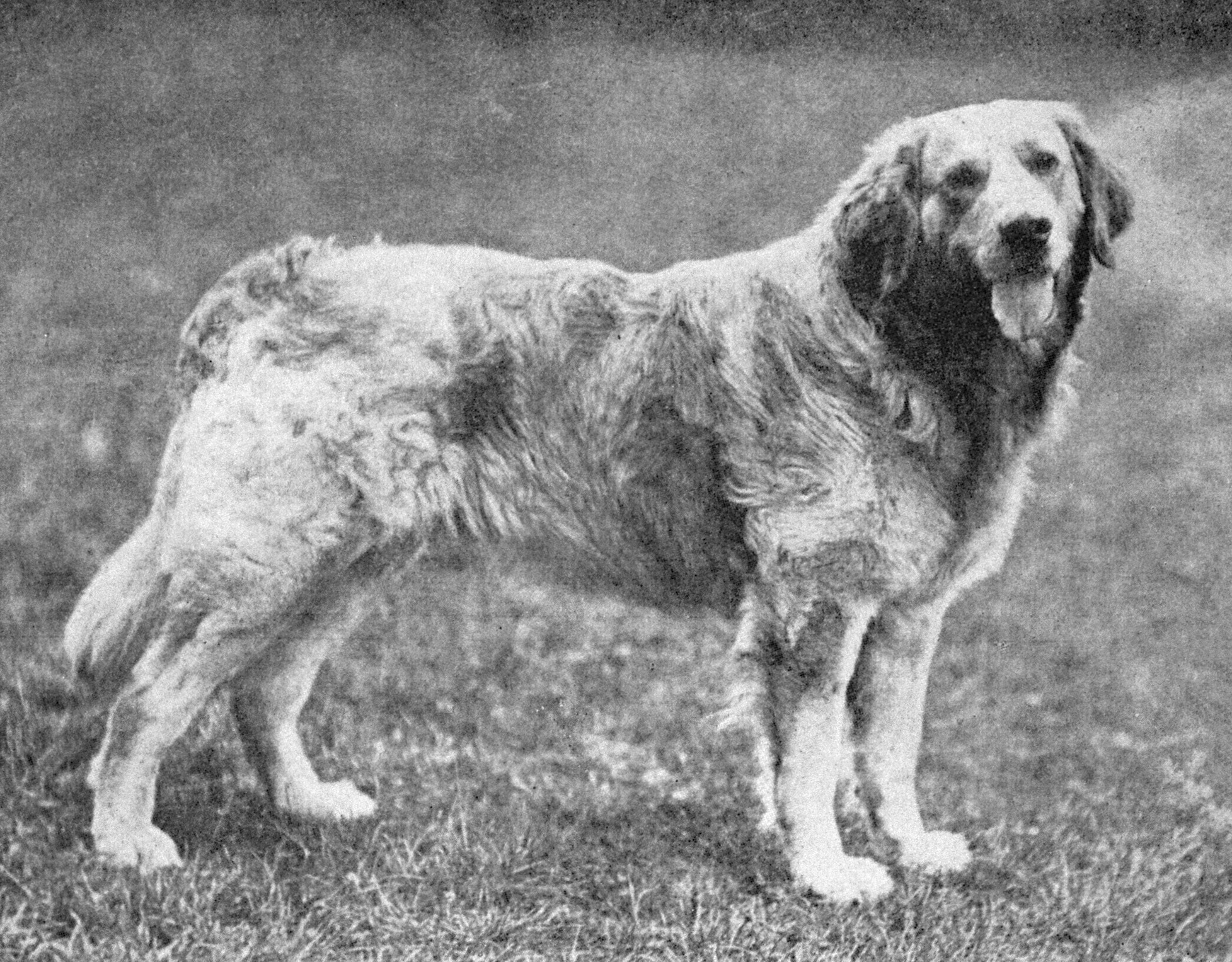 Russian Yellow Retriever from 1915